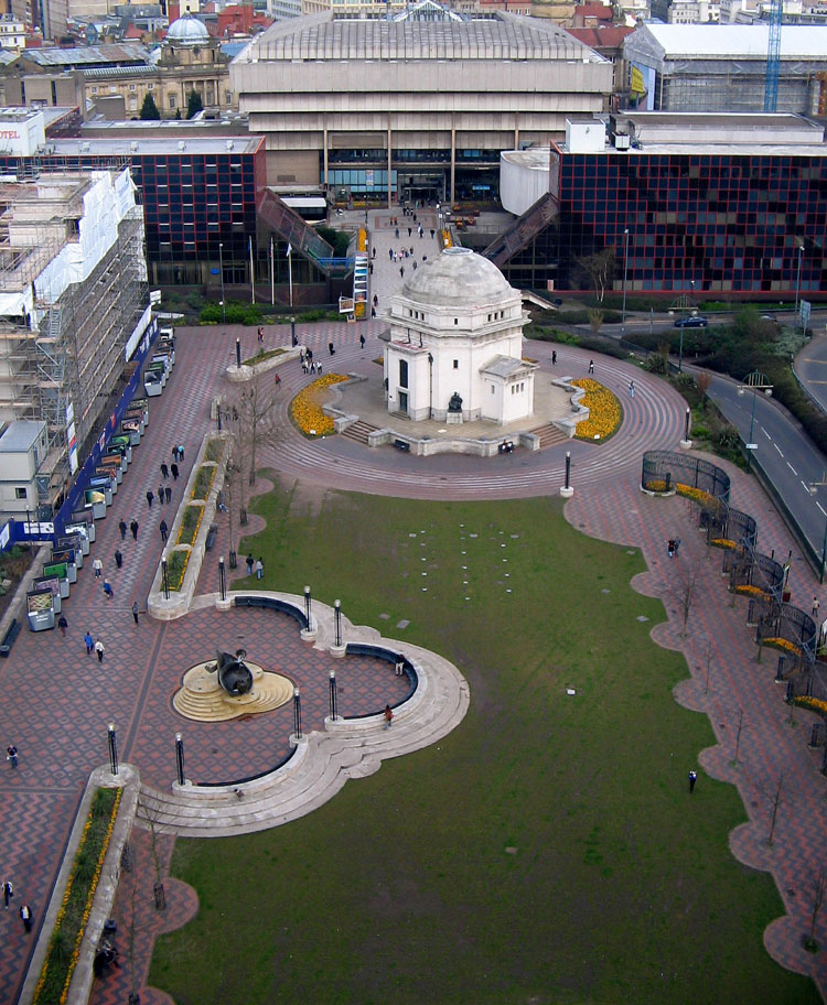 Centenary Square in Birmingham as seen from a ferris wheel. The white building is the Hall of Memory. the concrete building at the back is the central library.